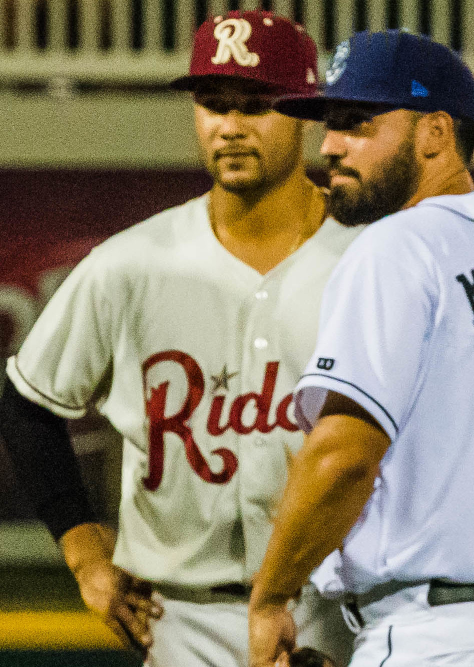 (From left) Ty France of the San Antonio Missions, Isiah Kiner-Falefa of the Frisco Roughriders, Jack Mayfield of the Corpus Christi Hooks and Viosergy Rosa of the Midland RockHounds during the 2017 Texas League All-Star Game